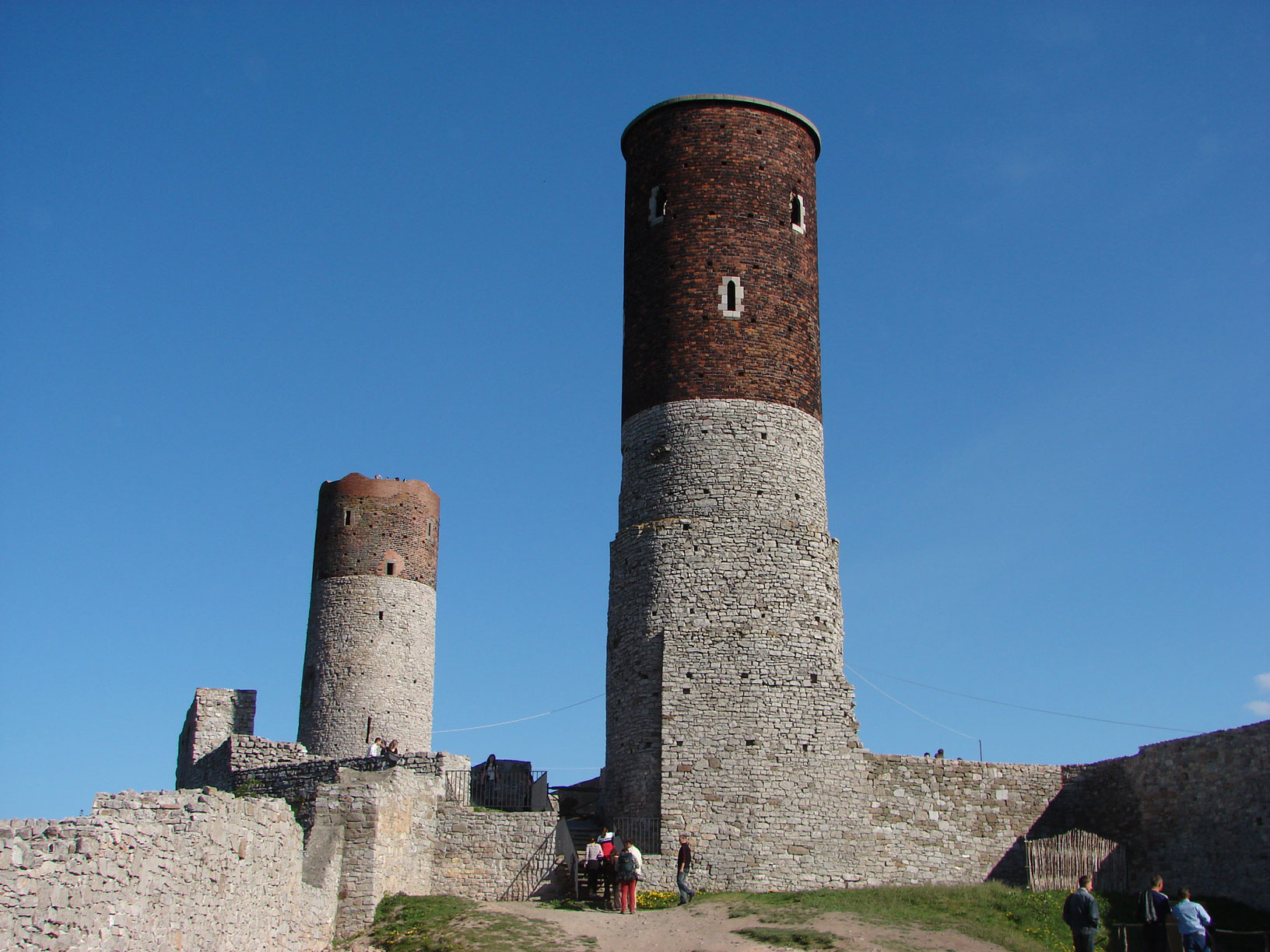 Castle in Chęciny / Poland